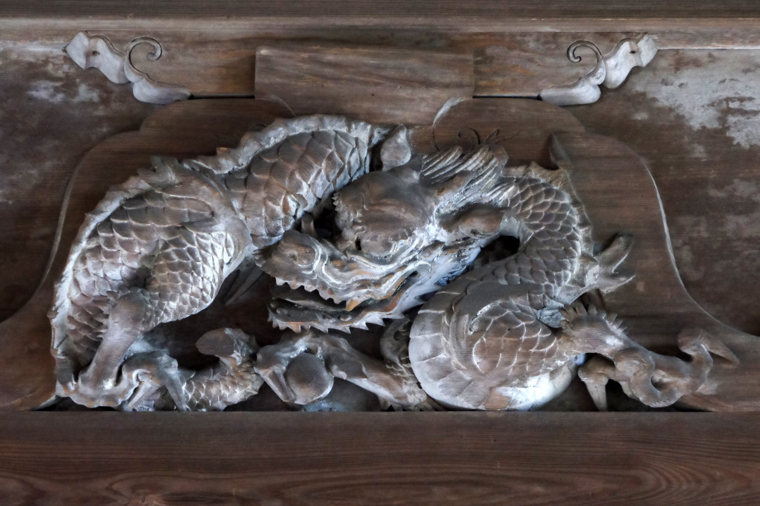 Mii-dera (Onjoji)'s Akaiya is a Japan's Important Cultural Property in Otsu, Shiga prefecture, Japan. It was built in 1600.